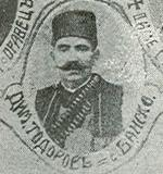 Portrait of IMARO member Dimitar Todorov from Bansko